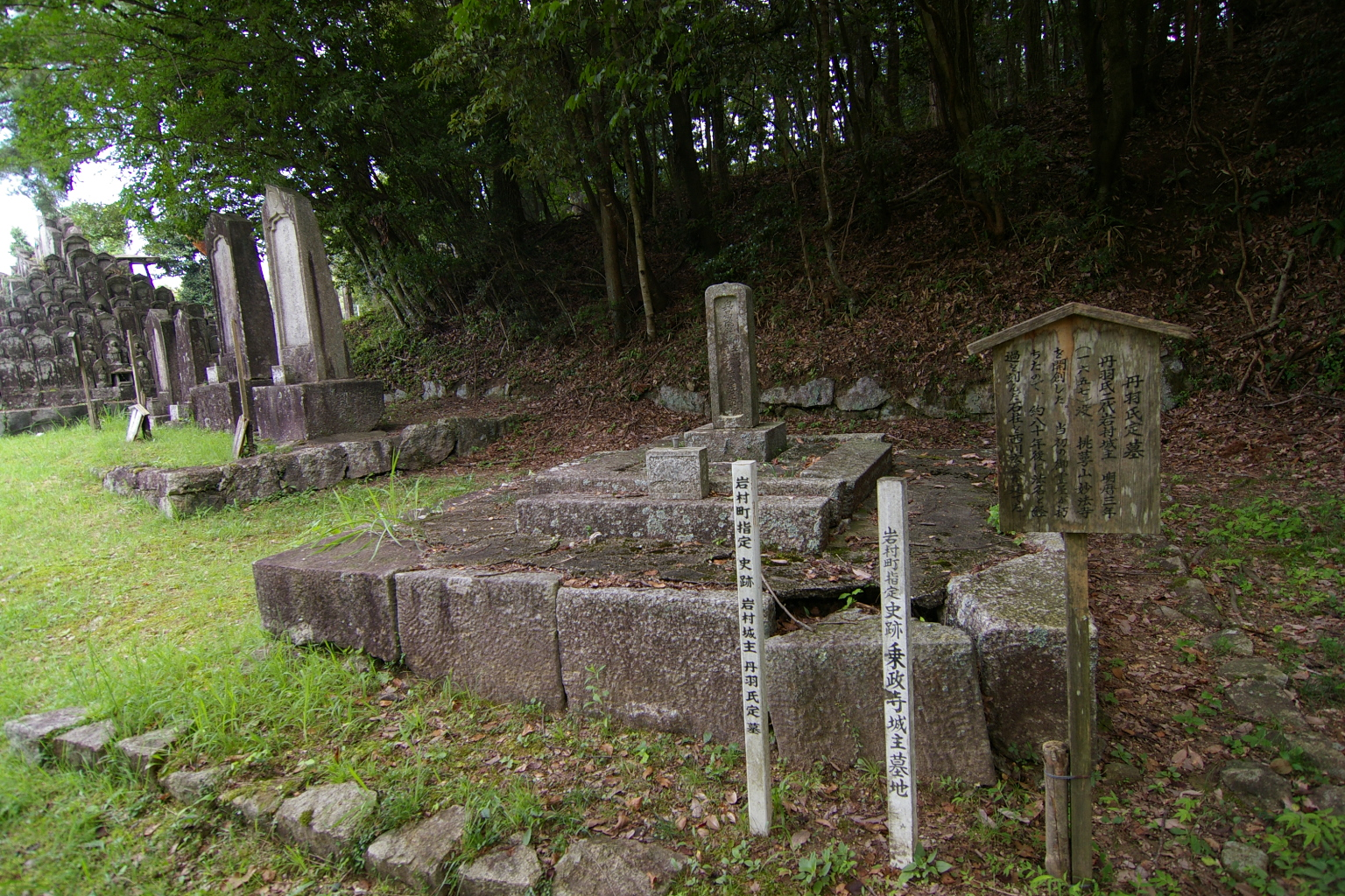 Daimyo Cemetery (Iwamura, Ena City, Gifu Pref., Japan)